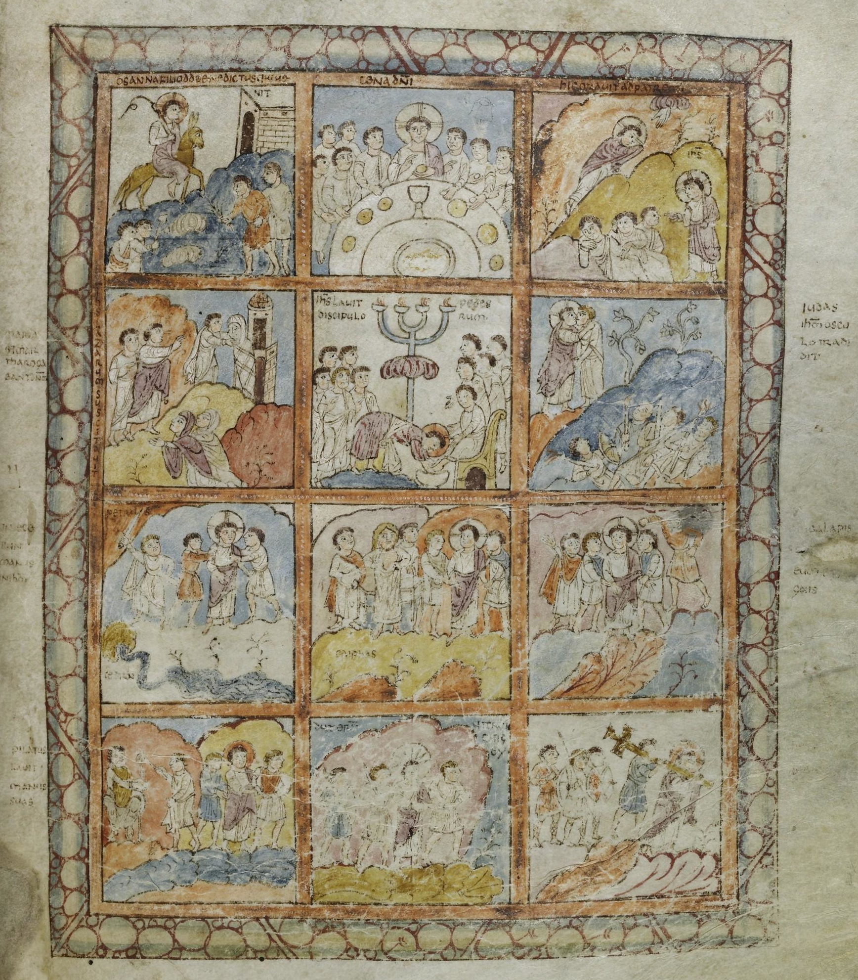 Folio 125r of the St. Augustine Gospels (Cambridge, Corpus Christi College, MS 286), Scenes from the Passion.